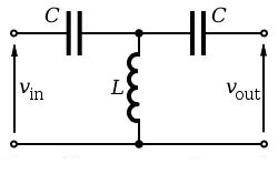 sdasfasf